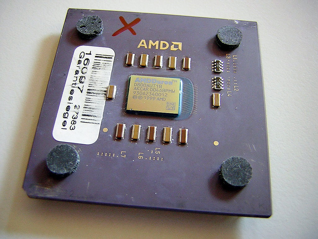 CPU AMD Duron 800